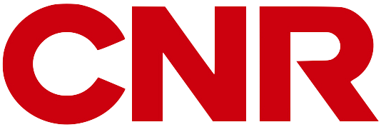 Logo of China National Radio.